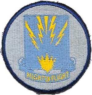 Emblem of the USAF 303d Bombardment Wing (Medium)